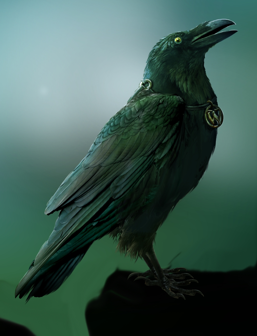 This is the Raven from Wisdom's Marching For Liberty album, with Wisdom pedent in his neck.